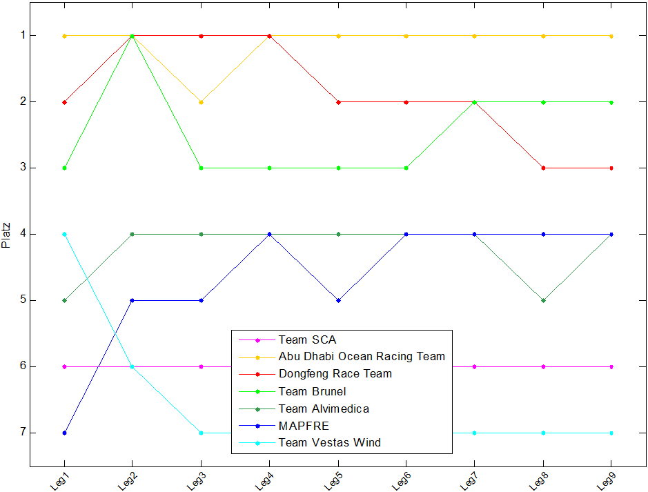 Volvo Ocean Race 2014-2015 change of standings